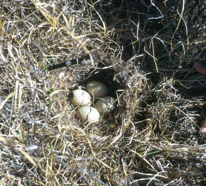 Northern Pintail's (Anas acuta) nest.